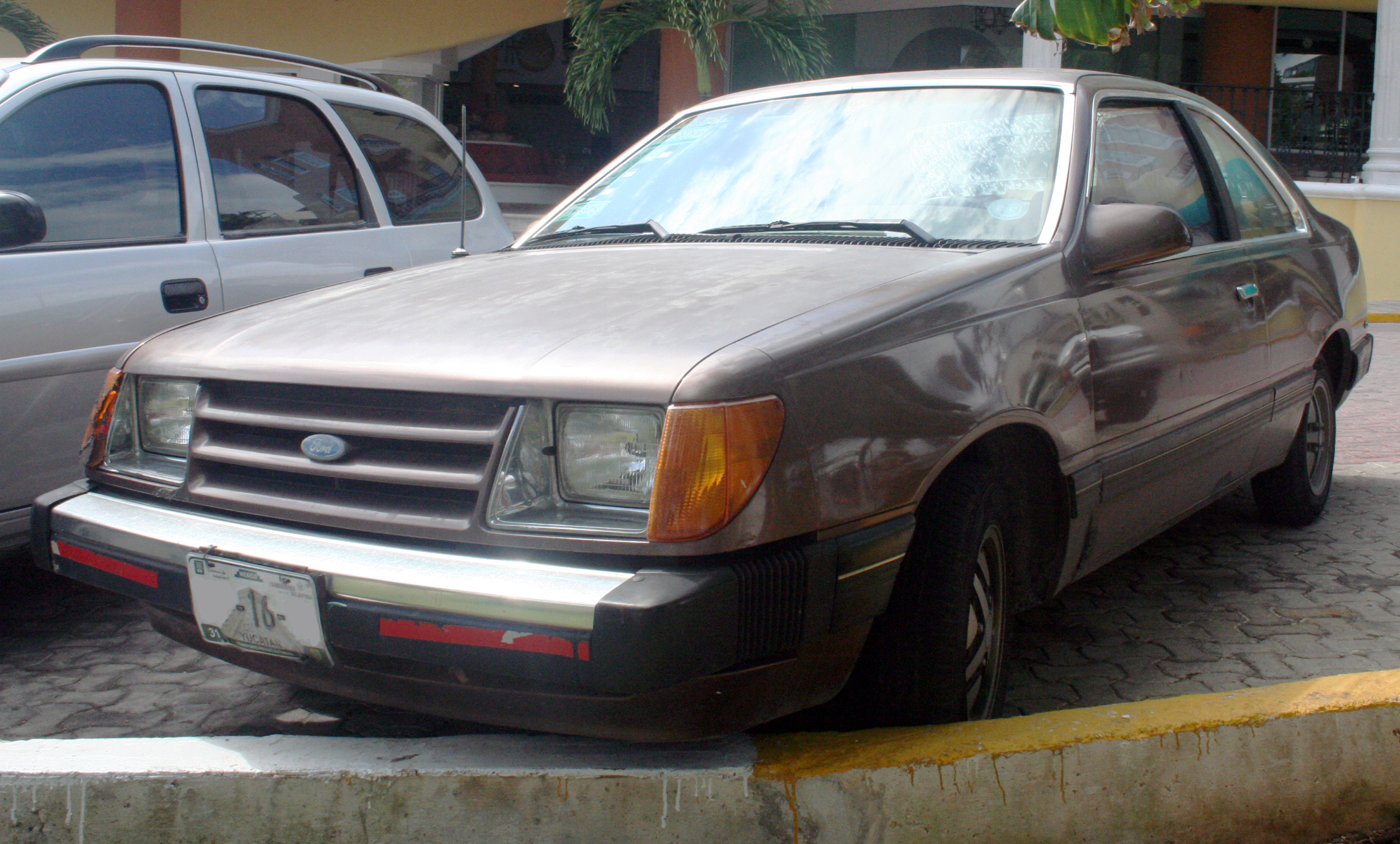 Mexican market 1985 Ford Topaz GLX in Playa del Carmen, Mexico. This special hybrid version, sold only in Mexico, used the taillight design of the US-market Mercury Topaz 2-door.